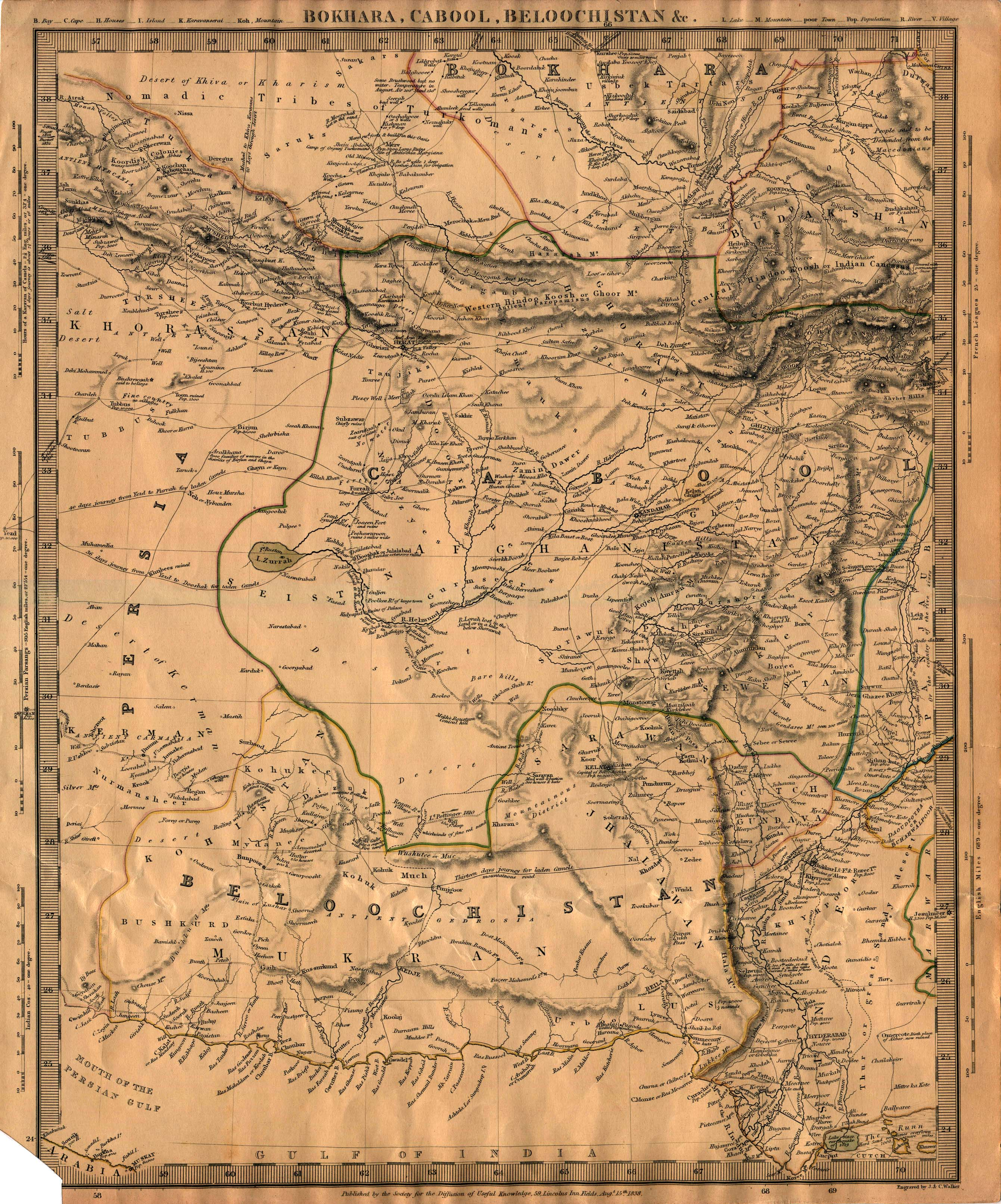 Bokhara Cabool Beloochistan, Published by the Society for the Diffusion of Useful Knowledge, 1838. From the Perry-Castañeda Library Map Collection, University of Texas at Austin